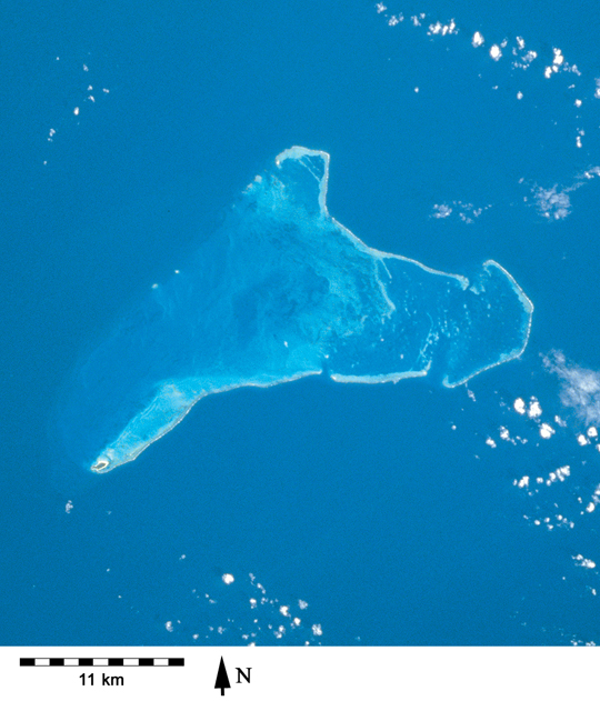 The Serrana Bank, Colombia. An isolated reef structure in the Caribbean Sea [STS080-718-46, 1996].